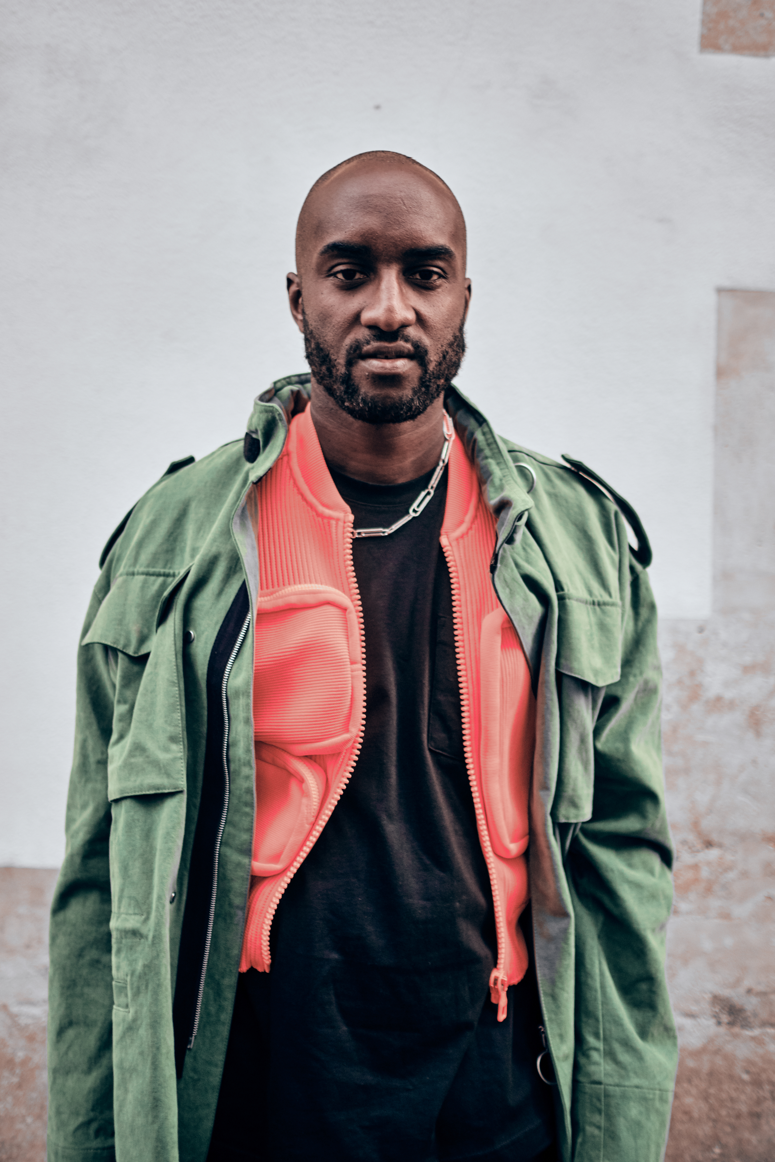 Virgil Abloh at Paris Fashion Week Autumn/Winter 2019